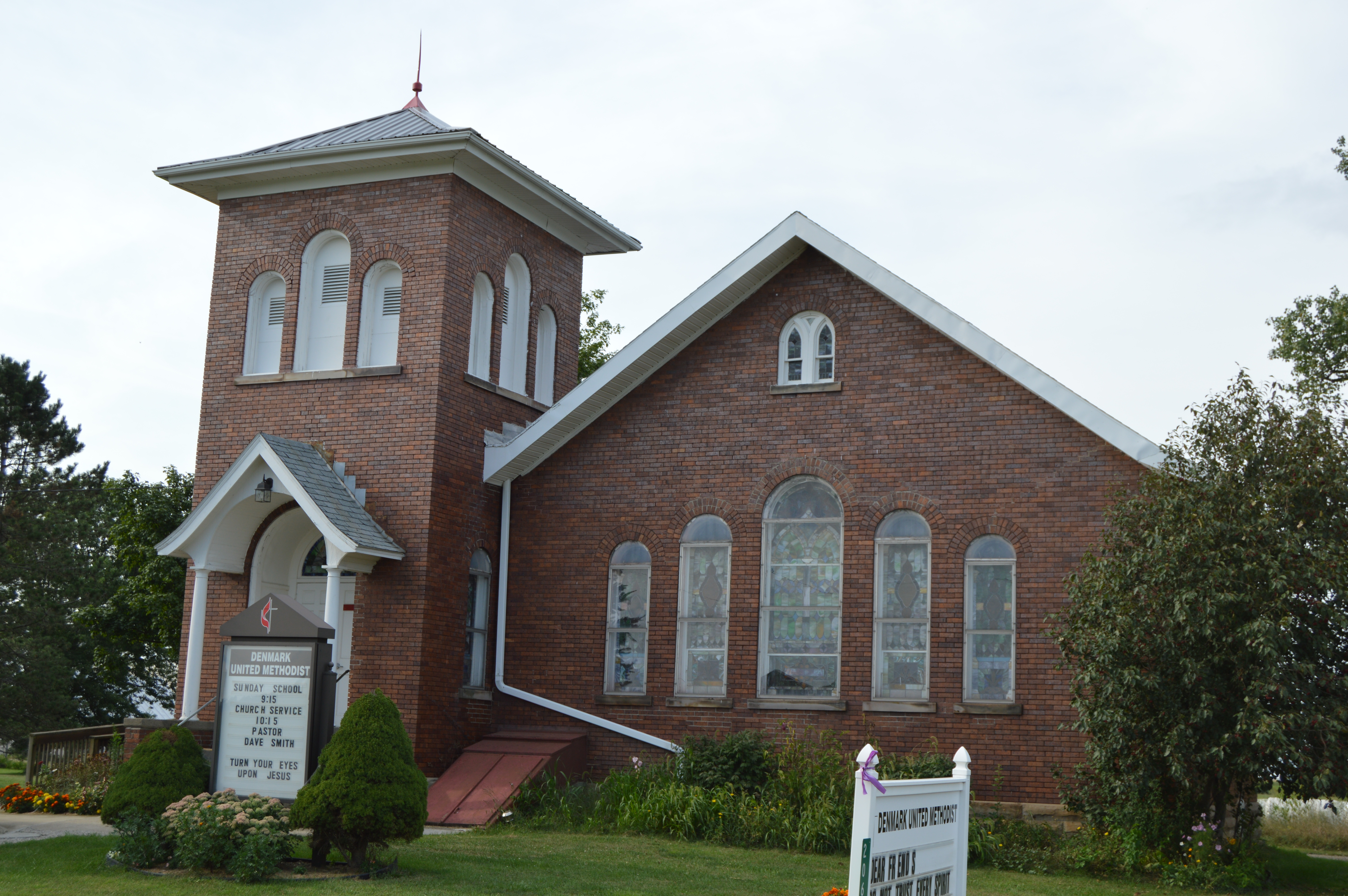 Front of the Denmark United Methodist Church, located at 2036 State Route 95 west of Edison in Canaan Township, Morrow County, Ohio, United States.